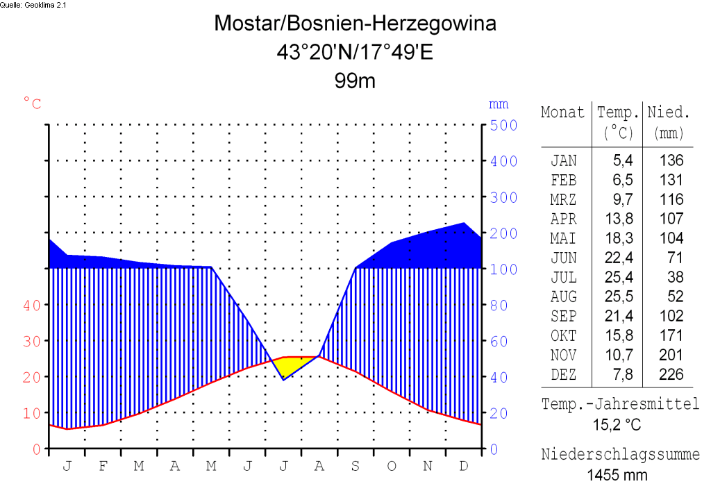 climate chart in the format by Walter and Lieth, metric, °Celsisus and millimeters, made with Geoklima 2.1